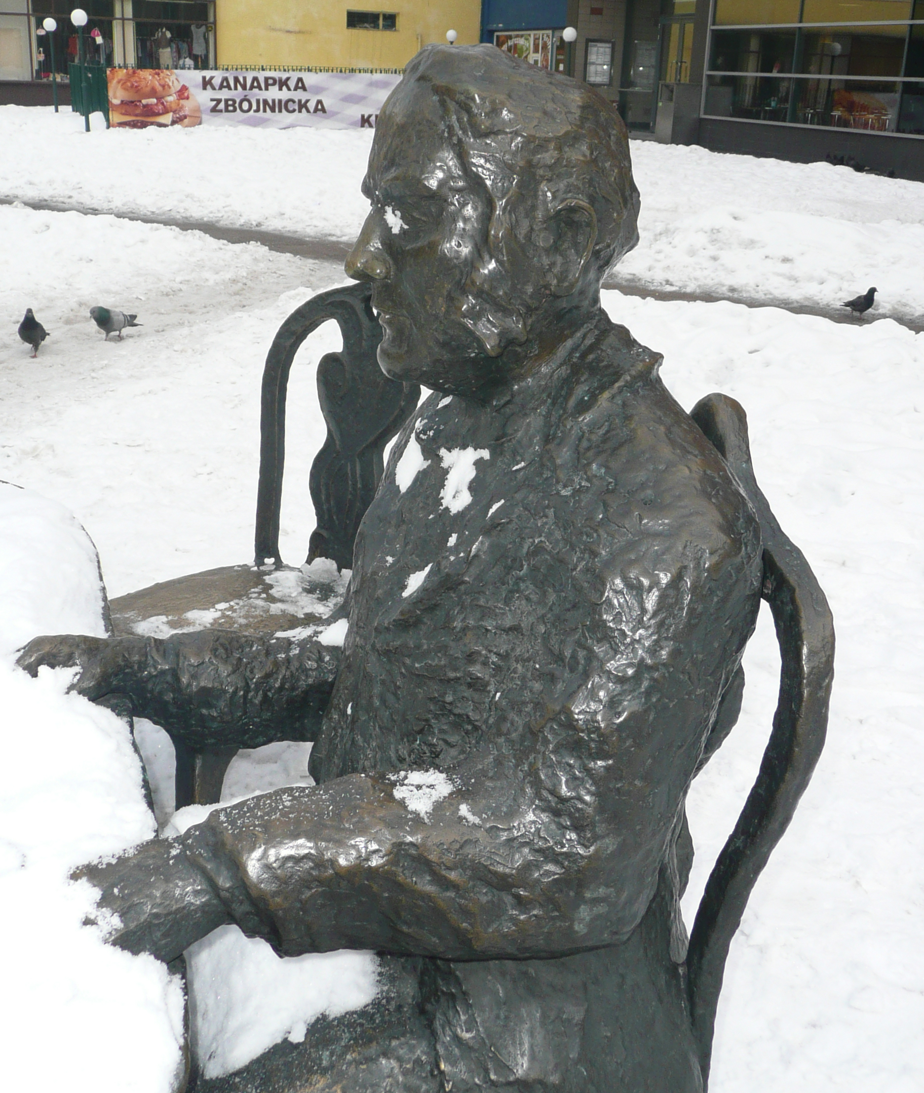 Statue of Karl Wilhelm Scheibler in Lodz